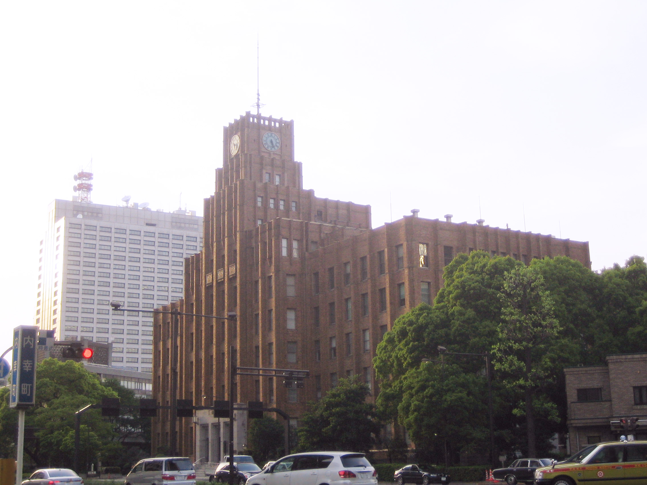 Municipal Research Building (市政会館 Shisei Kaikan), at Hibiya Koen, Chiyoda, Tokyo|Chiyoda, Tokyo, Japan